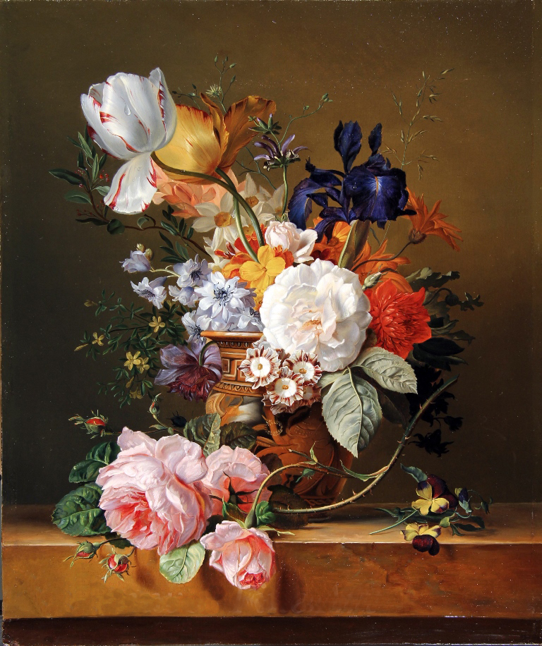 Abundant Flower Still Life